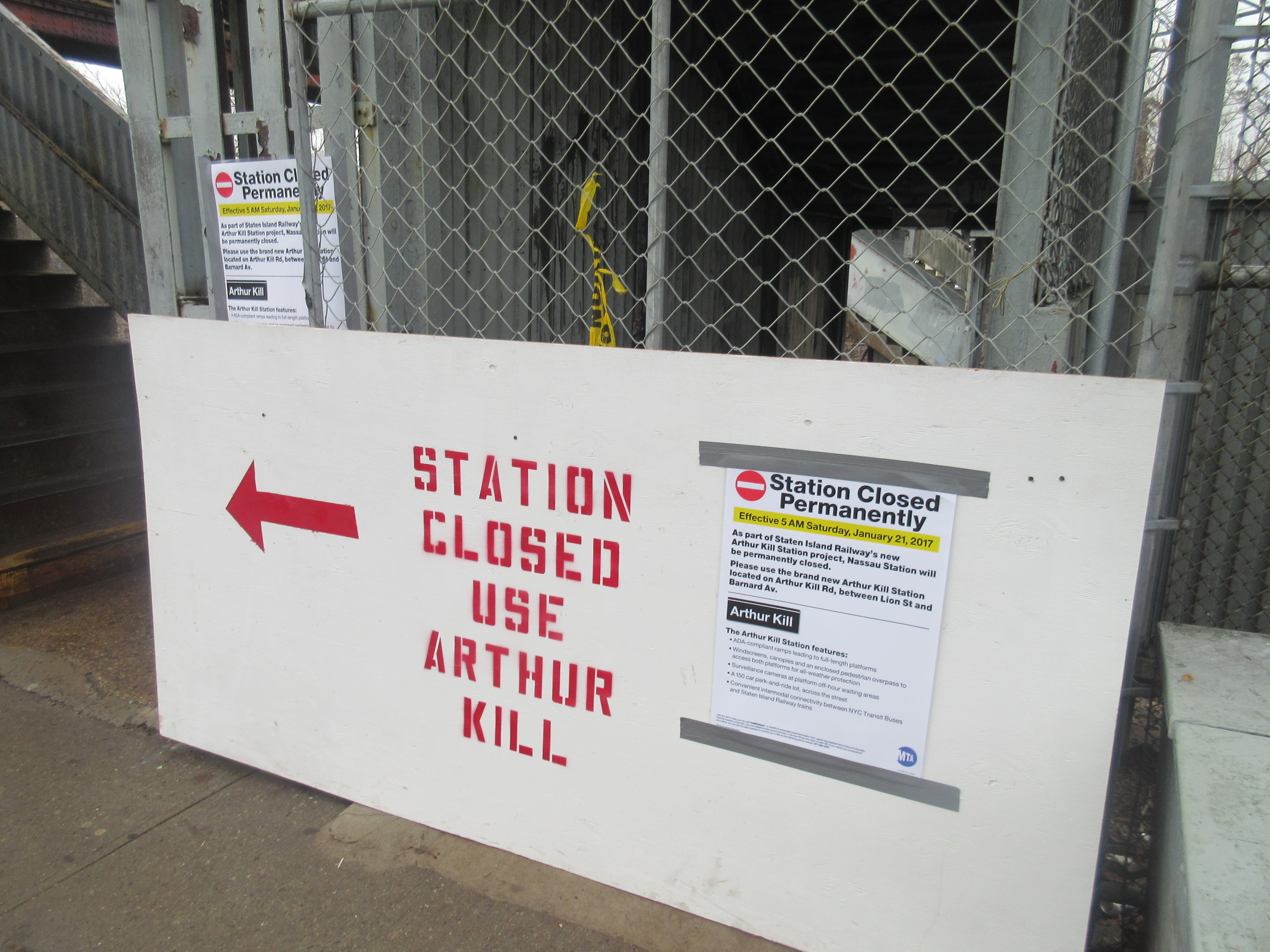 This sign blocks the entrance to the now-closed Nassau station. This picture was taken the day after the station was closed. The station was replaced by the new Arthur Kill station, which the poster advises passengers to use.